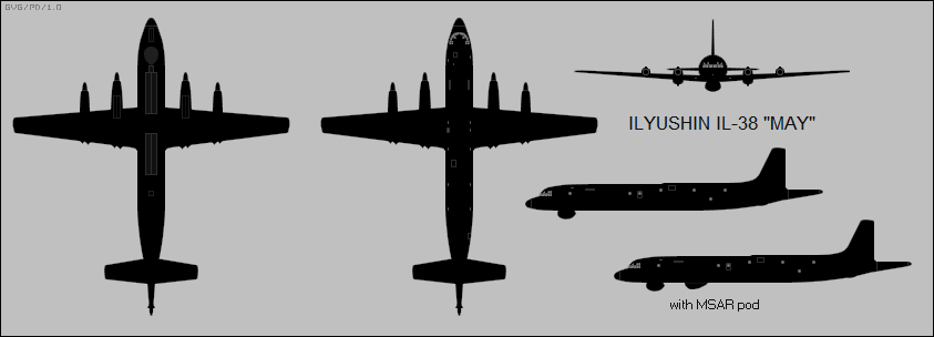 5-view silhouettes of Ilyushin Il-38 "May"